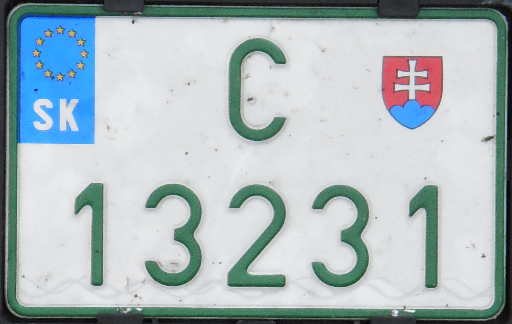 Slovakian import/temporary plate